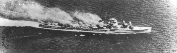 Wakatsuki, Akizuki class destroyer of the Imperial Japanese Navy, under attack at Ormoc Bay, Leyte Island, Philippines.